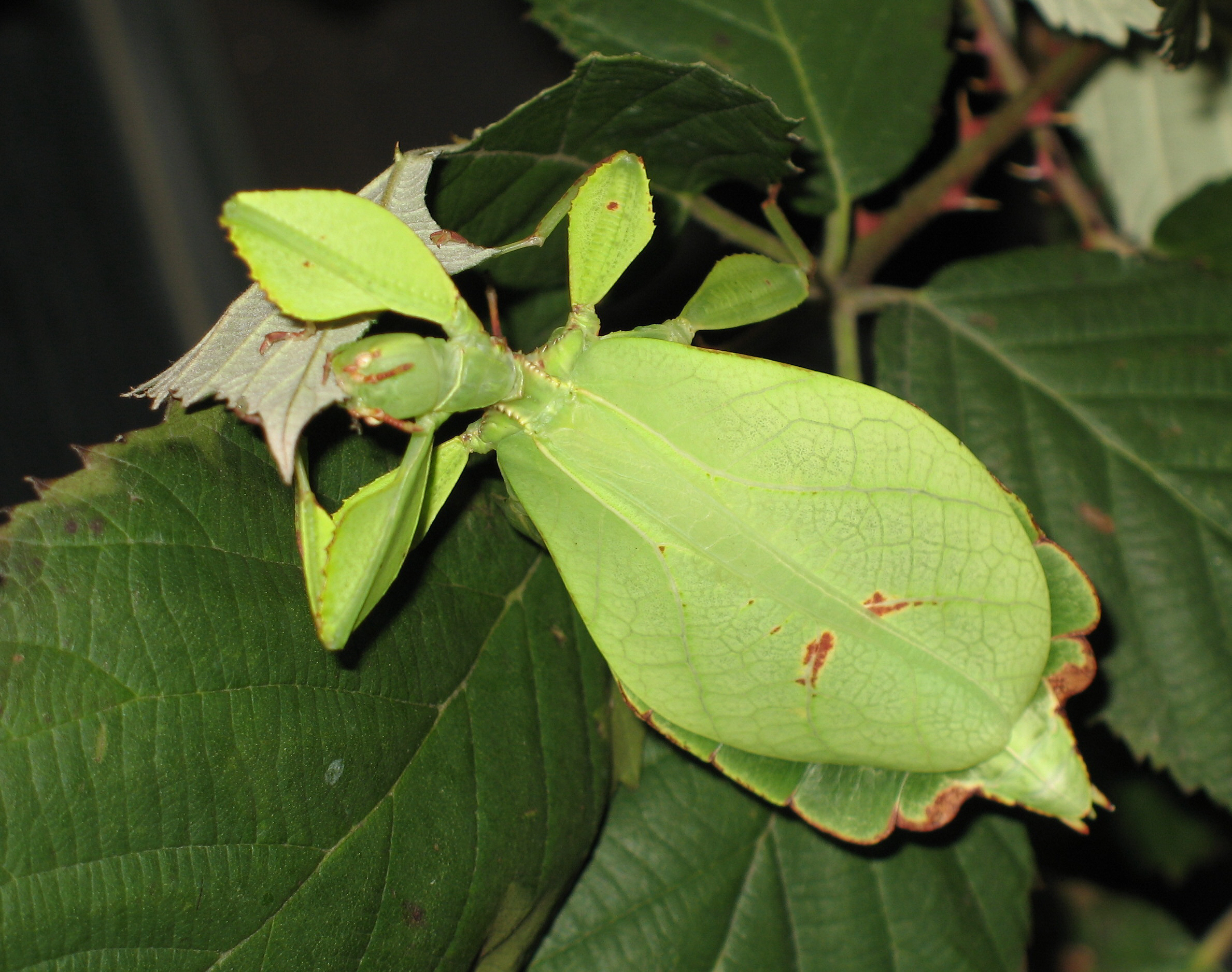 Phyllium philippinicum - female